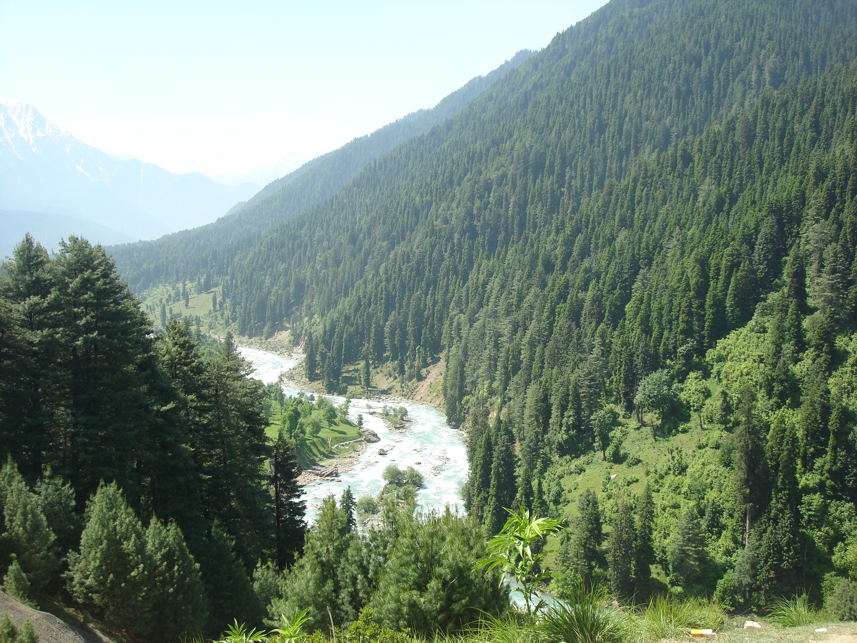 scenic beauty